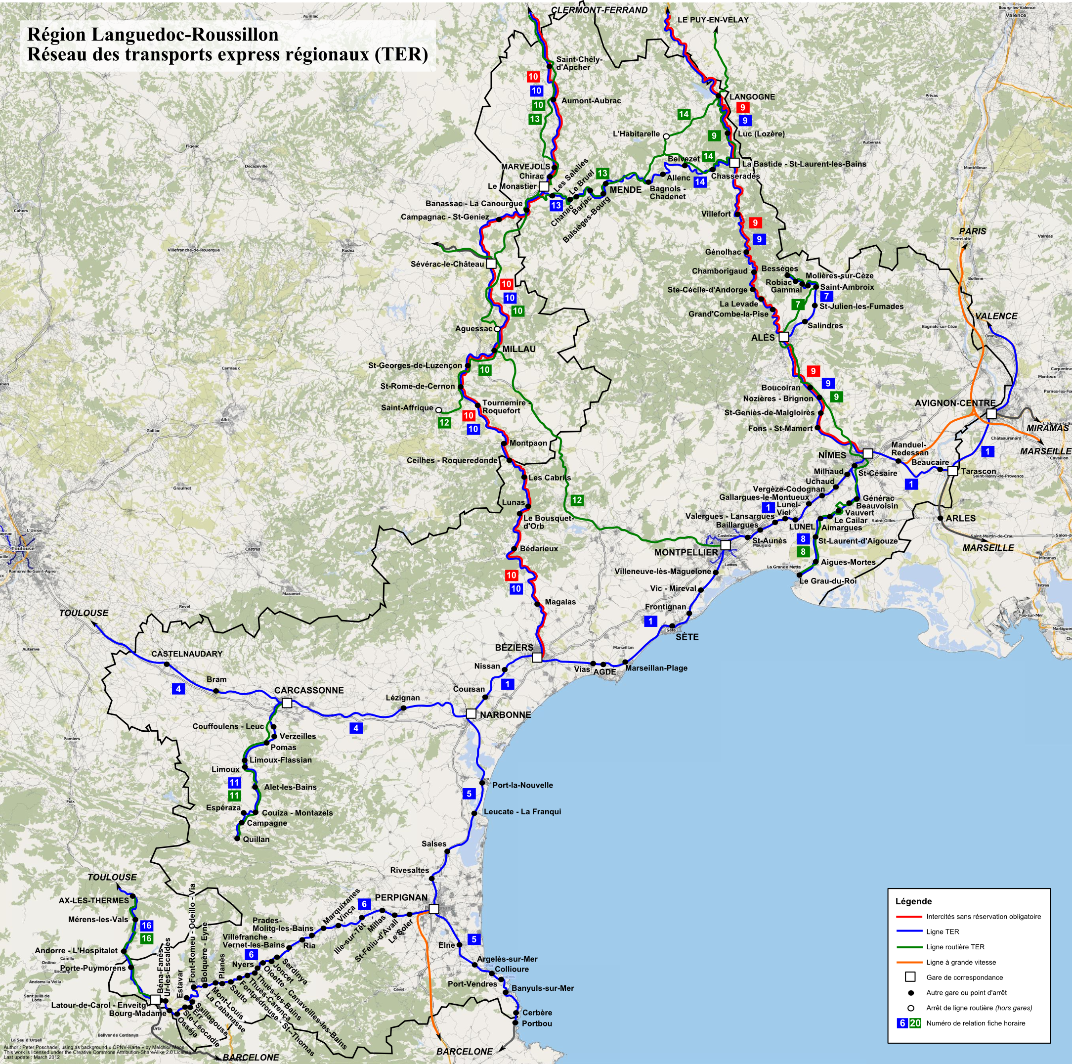 Region Languedoc-Roussillon, regional transport network (TER)